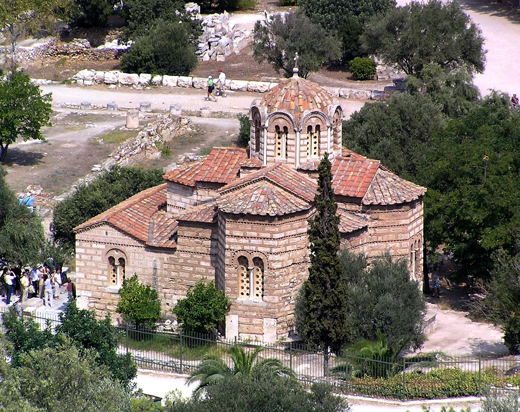 Church of the saint apostles (Agii Apostoli) in the ancient Agora in Athens, seen from the Akropolis.